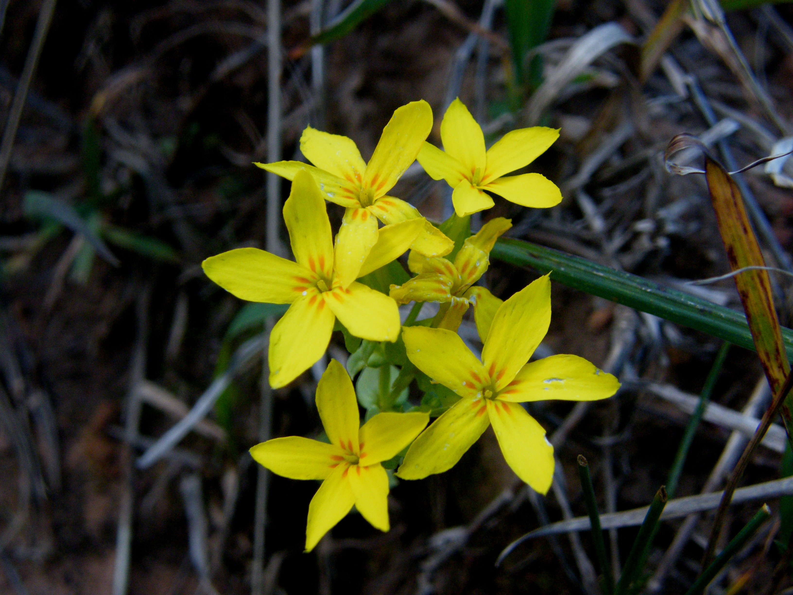 Sabaea exacoides